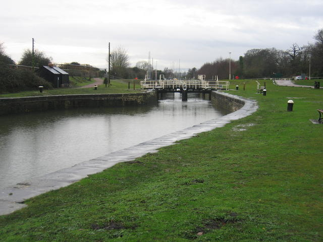 Lydney Harbour This whole area has recently benefited from grants and has been restored as an operational harbour for leisure boating. This view from beside the half tide basin shows the inner lock with yachts moored in the restored end of the Lydney Canal beyond.